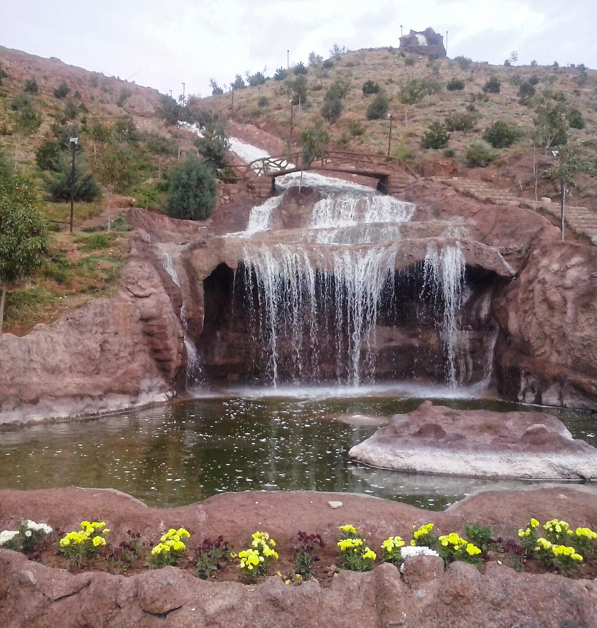 Artificial Waterfall, Mount Eynali foothills, Tabriz.